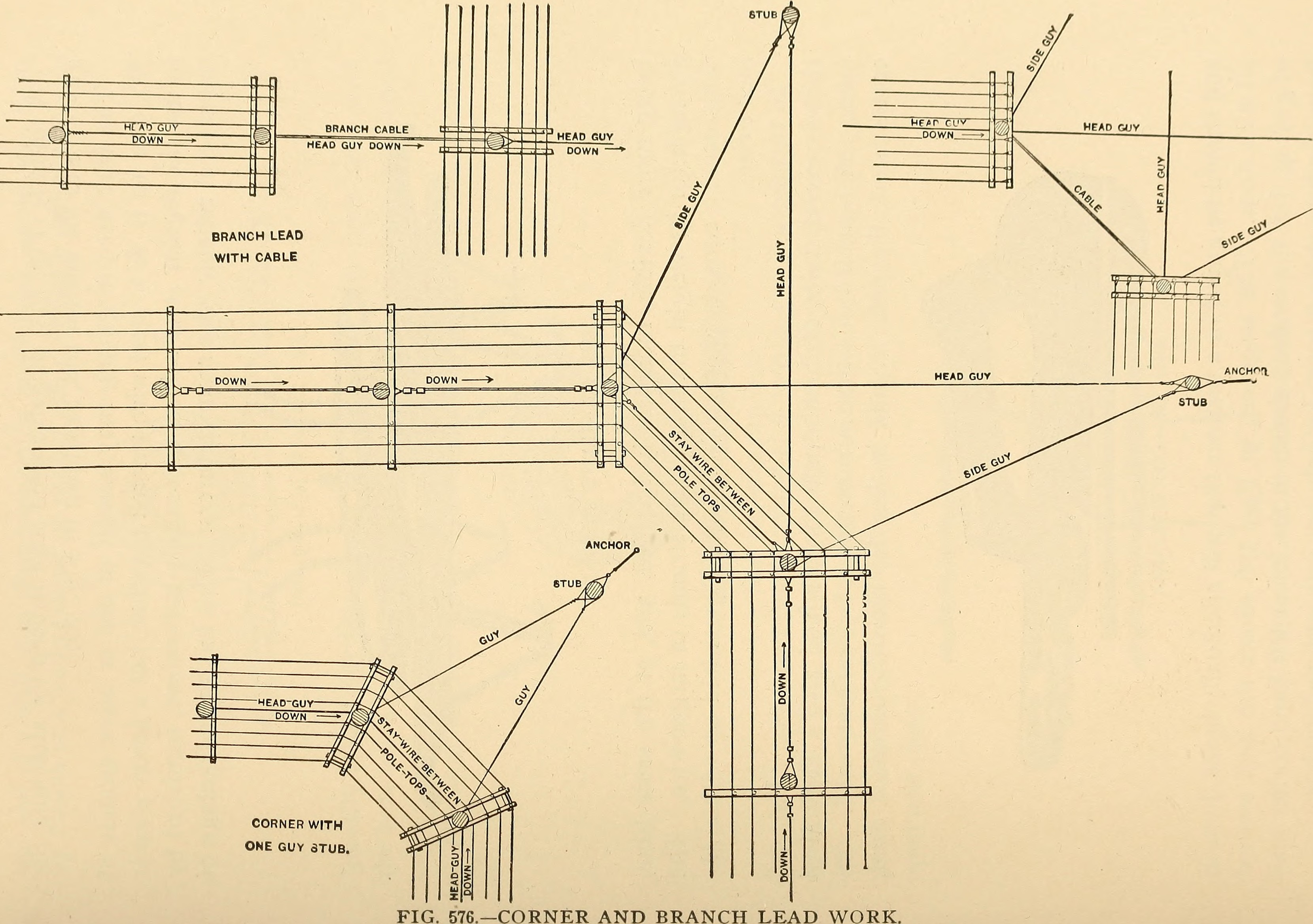 Title: American telephone practice Year: 1905 (1900s) Authors: Miller, Kempster B. (from old catalog) Subjects: Publisher: Text Appearing Before Image: FIG. 674.—COOK THREE-BOLT CLAMP. FIG. 675.—THIMBLE. U-bolt clamps sustain loads of from 600 to 2000 pounds withoutslipping of the guy wire; two-bolt clamps from 1000 to 4500 pounds,and three-bolt clamps from 1100 up to 6000 pounds. i M-^, a c 1 o ;si §1 r I r t;S z n Text Appearing After Image: 795 796 AMERICAN TELEPHONE PRACTICE. A thimble (Fig. 575) of galvanived steel is used for attaching theguy wire to the anchor rod, as shown in Fig. 569. The wire used in guying may consist of one or more strands ofXo. 9 or 10 B. & S. steel wire twisted together, but a better plan isto use the regular steel cables, thoroughly galvanized, furnished bythe several reliable wire manufacturers. This has the advantage of